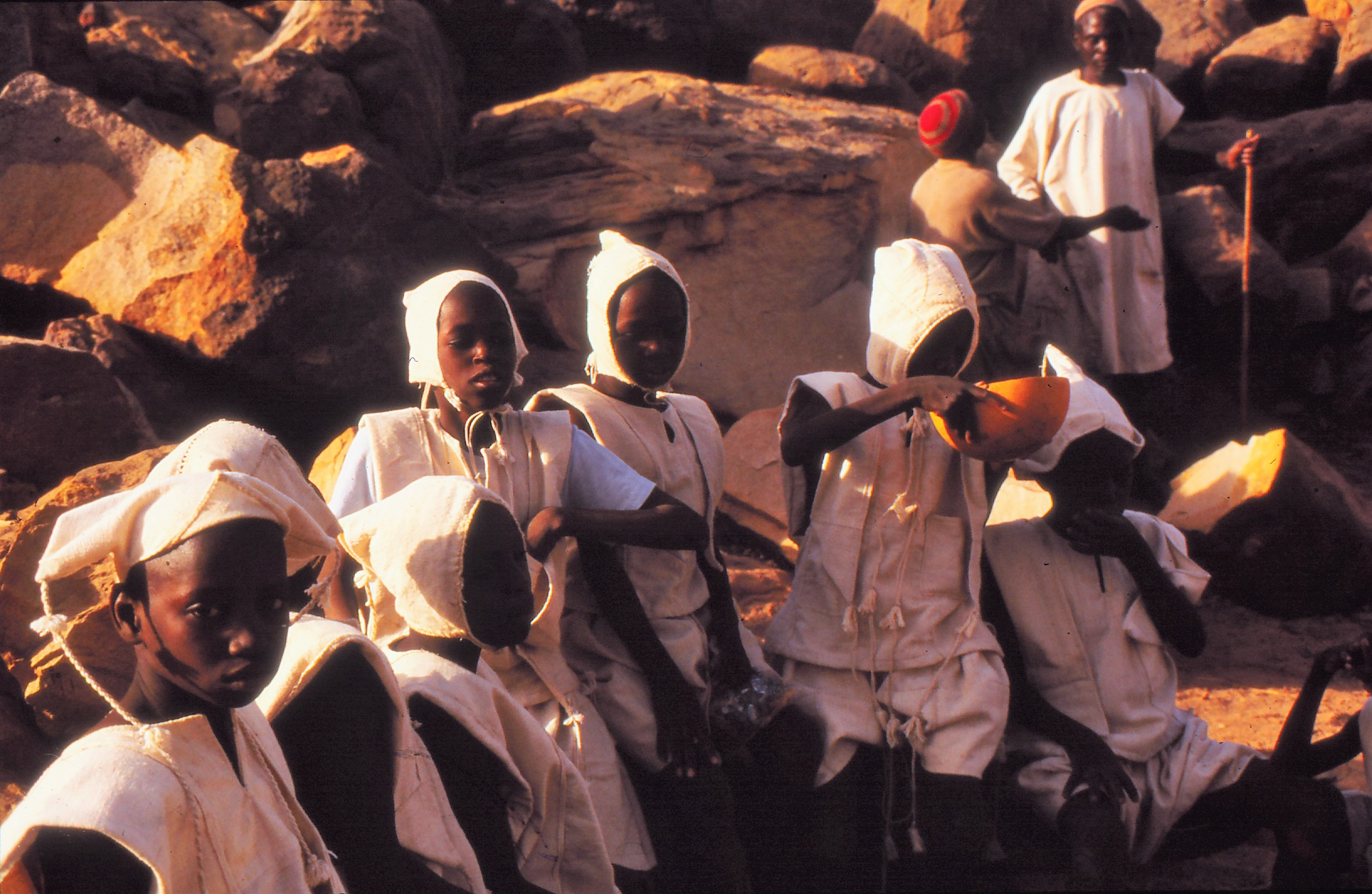 Just circumcized boys in white clothing at Tireli market, Mali 1990